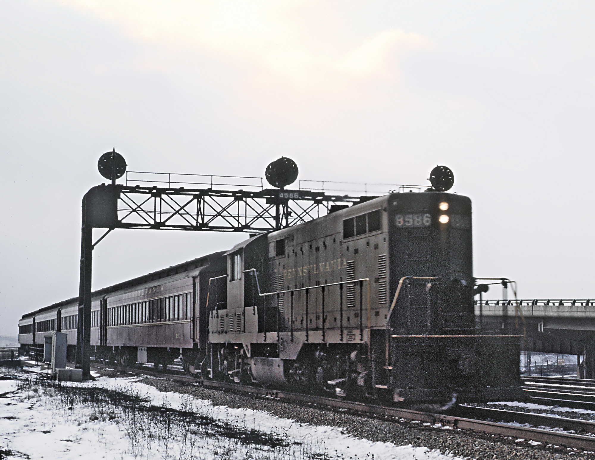 An inbound Valpo Local train at 75th and Skyway in Chicago in March 1964